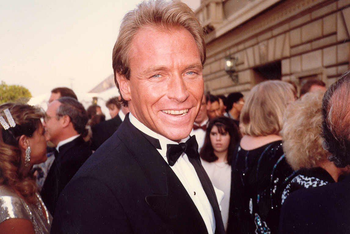 Corbin Bernsen on the red carpet at the 39th Annual Emmy Awards 9/20/87